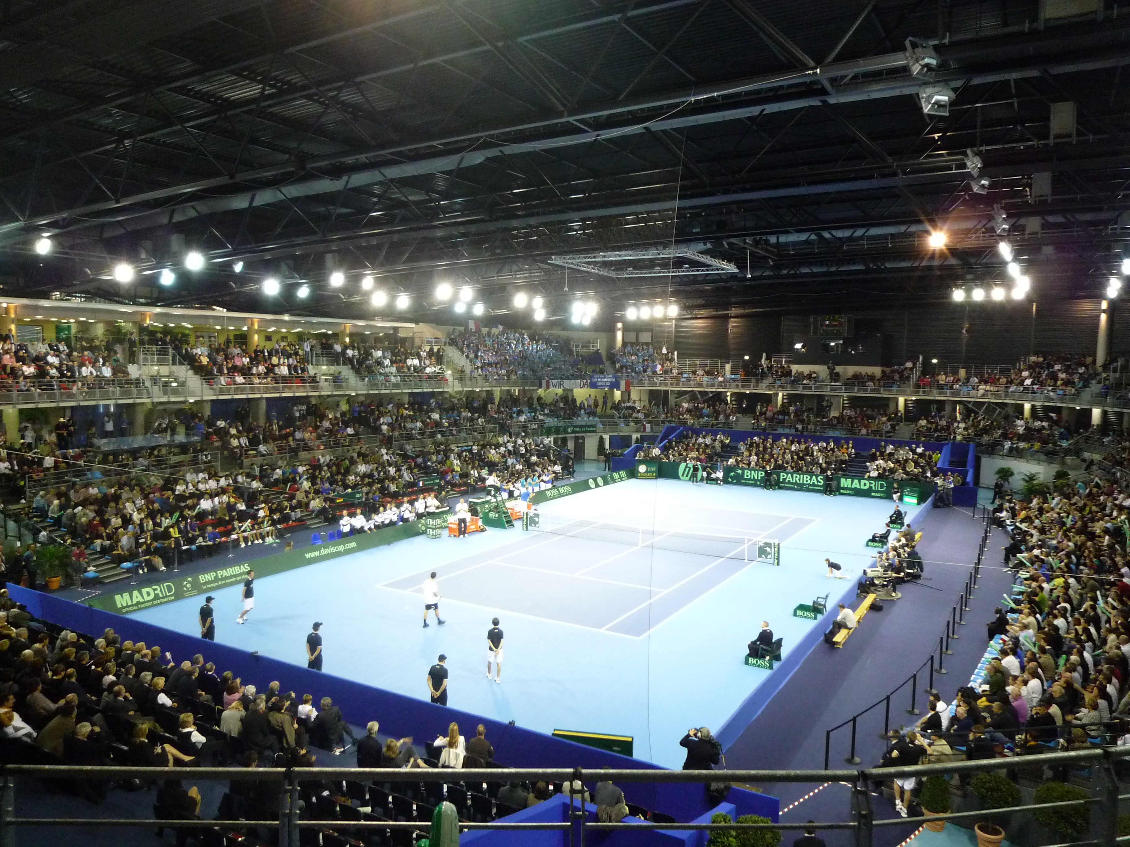 Coupe Davis 2010 in Toulon. First round (World Group) : France vs Germany.